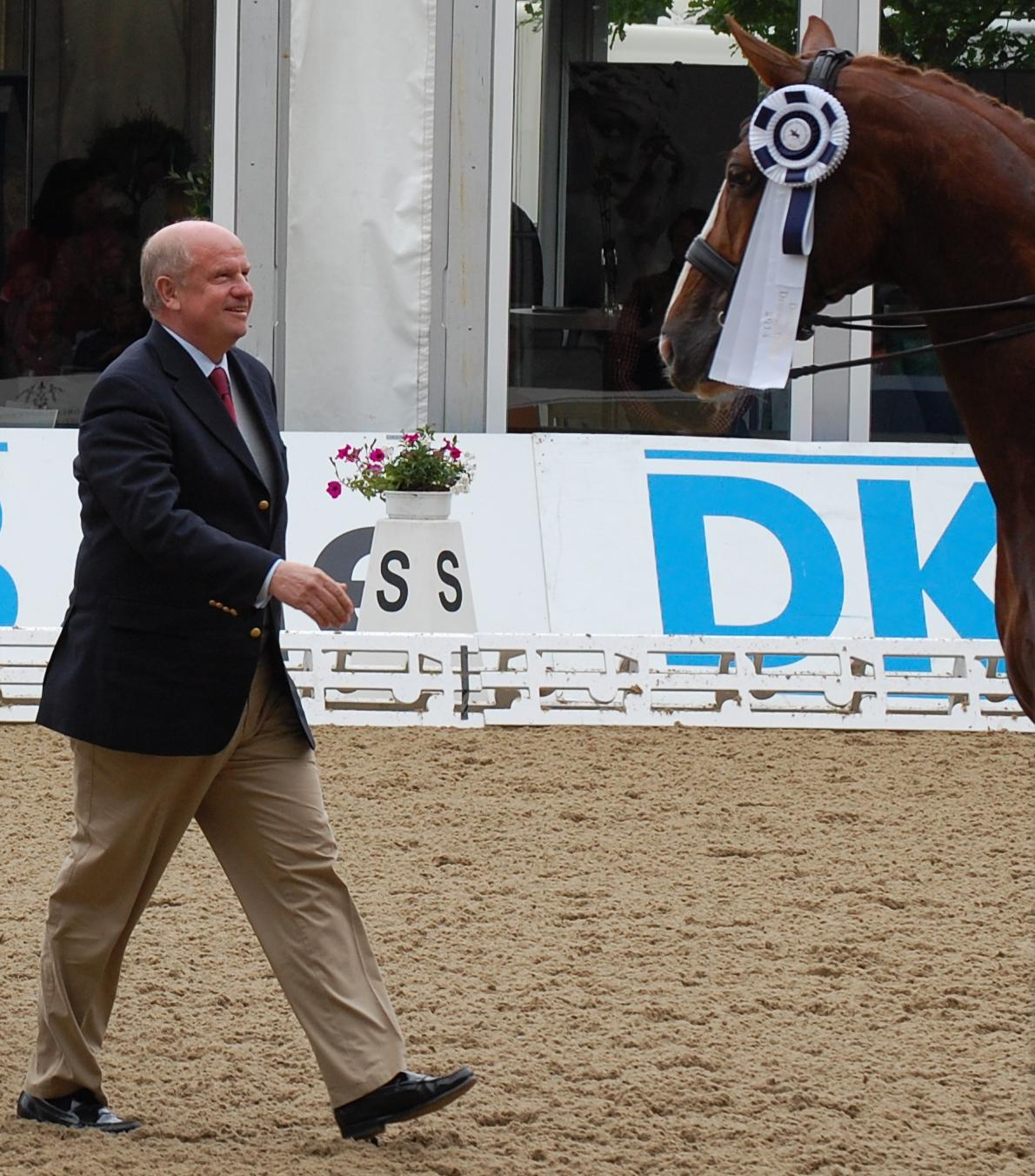 Martin Richenhagen (dressage judge, president & CEO of AGCO) at the 2014 German dressage derby.